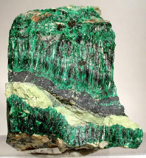 Antlerite Locality: Chuquicamata Mine, Chuquicamata District, Calama, El Loa Province, Antofagasta Region, Chile (Locality at ) An exceptionally rich, solid vein of lustrous, acicular, green antlerite crystals with a bit of matrix from the worlds largest open pit copper mine, Chuquicamata, in Chile. The locality is now long gone and good , rich, colorful pieces like this are almost impossible to come by of the rare copper species once found there. The piece is also aesthetically shaped. Ex Marty Zinn Collectin # 7667. 3.5 x 3.4 x 1.8 cm